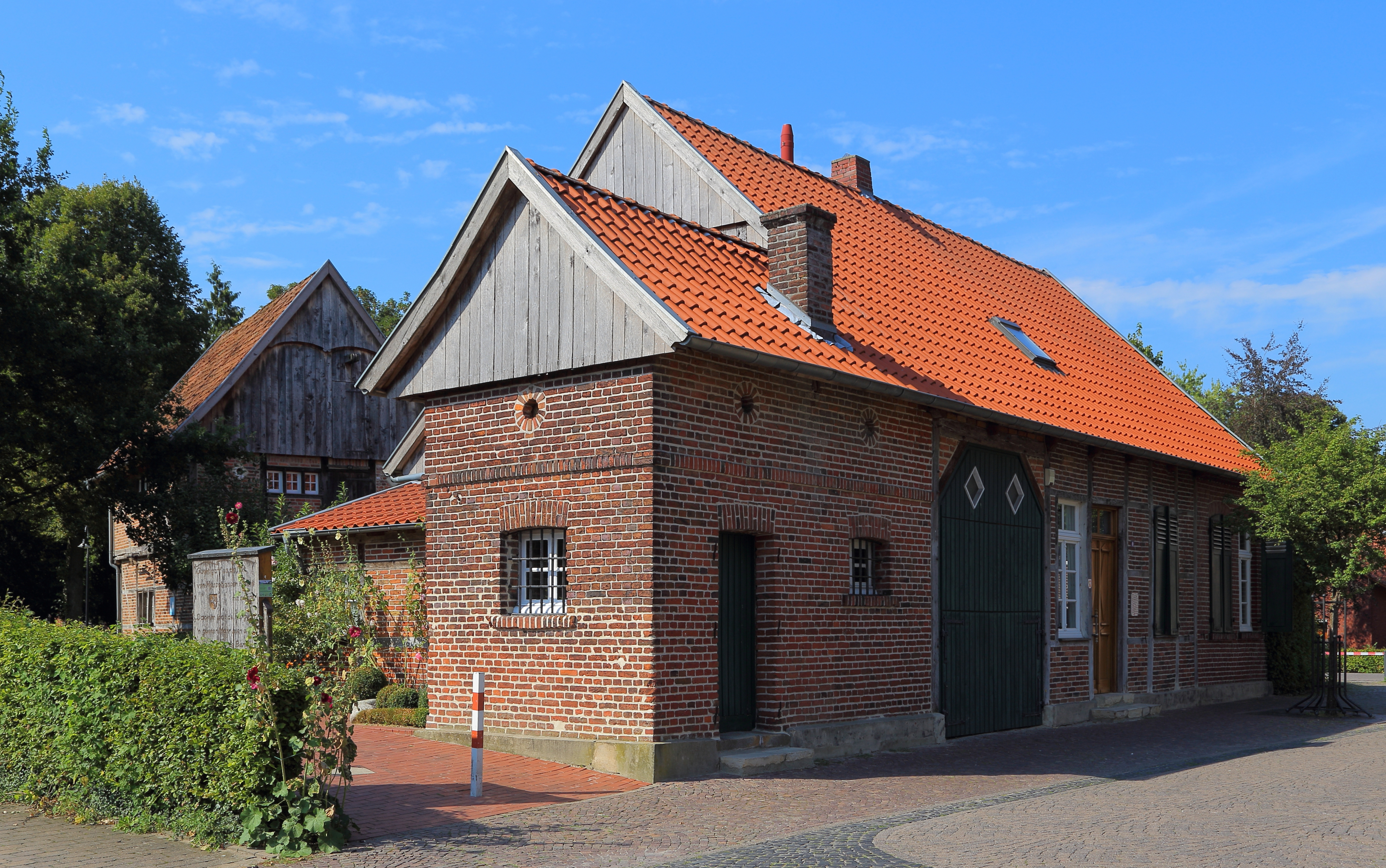 The Heimathues Kittken in Altenberge, Kreis Steinfurt, North Rhine-Westphalia, Germany.